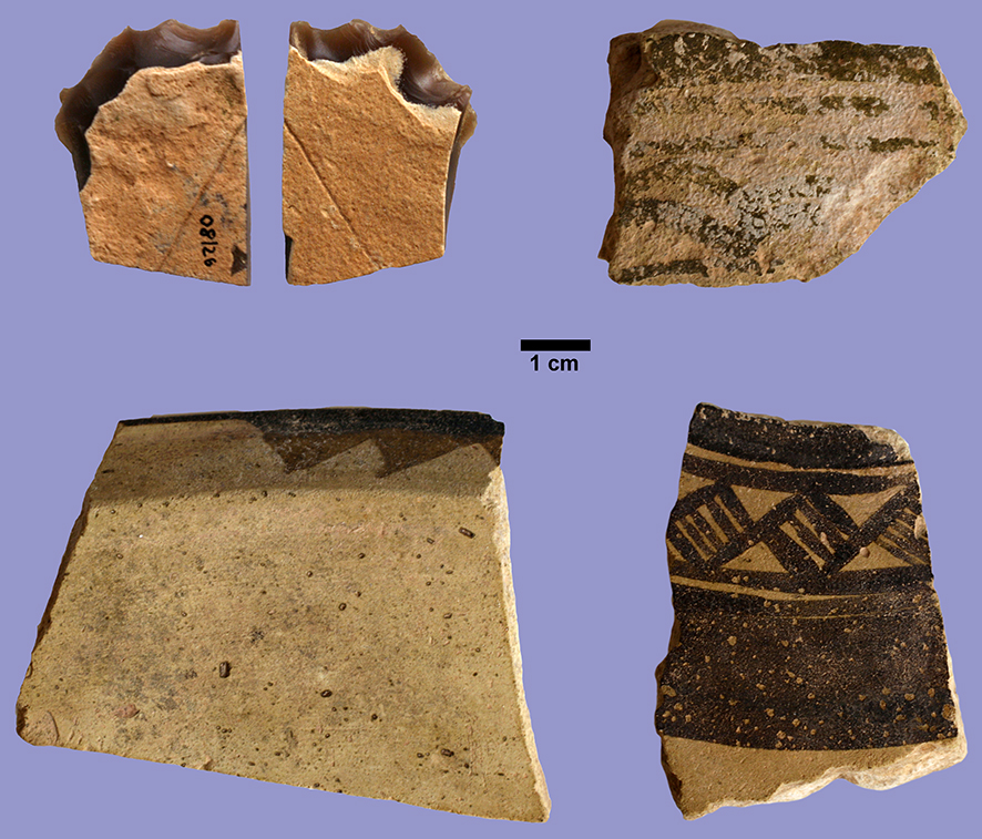 painted ceramic ubaid-style, silex